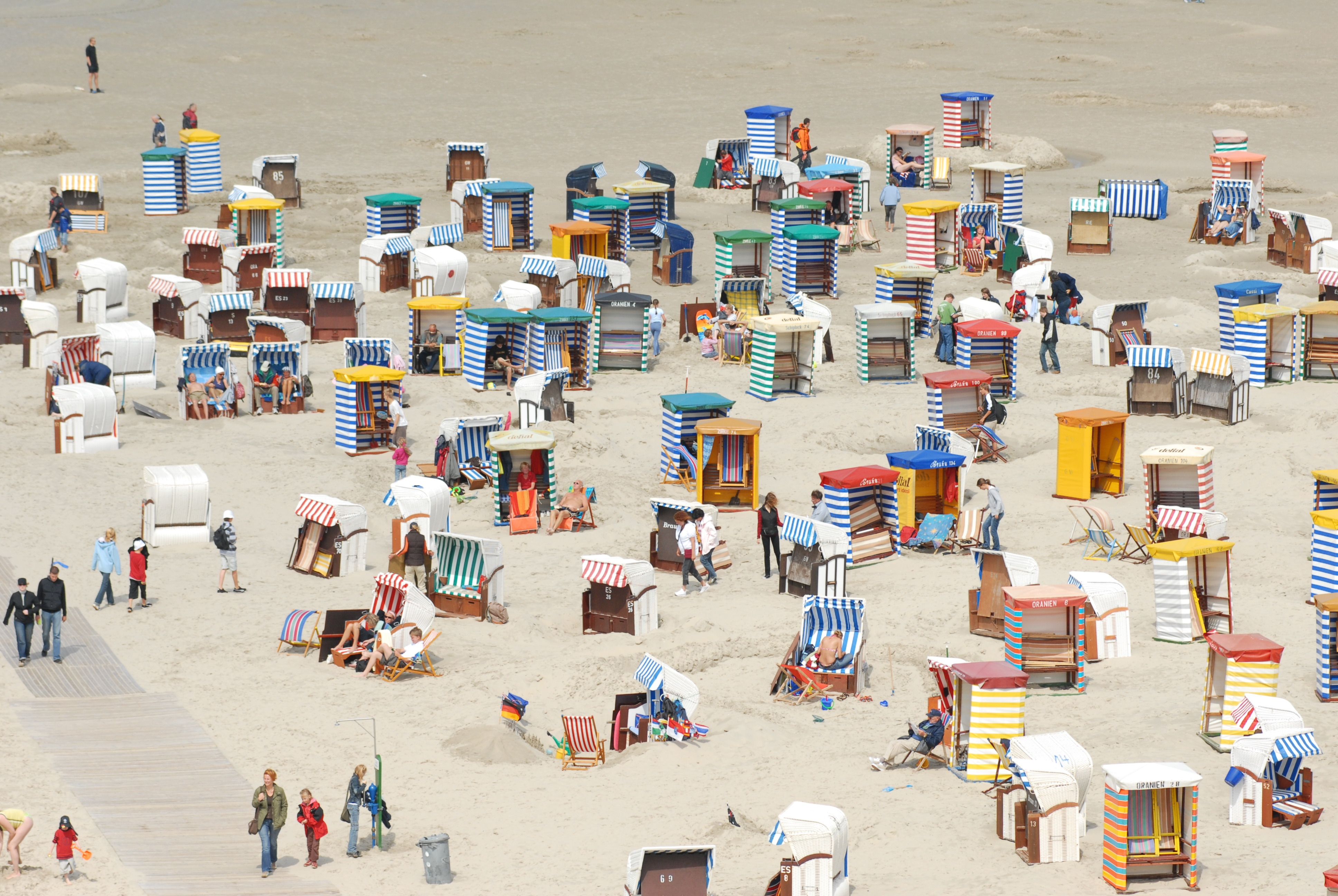 Roofed beach chairs